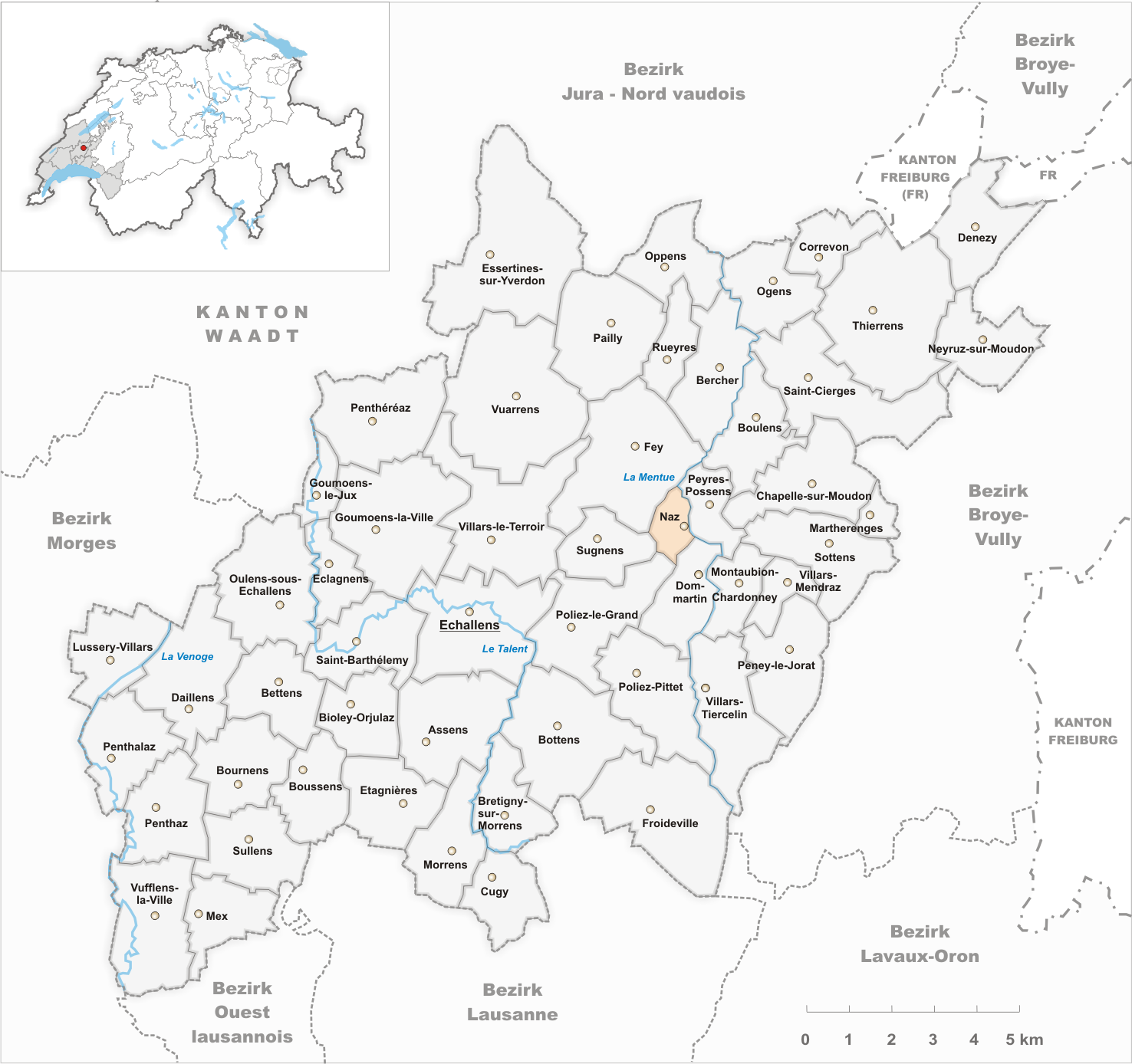 Municipality Naz